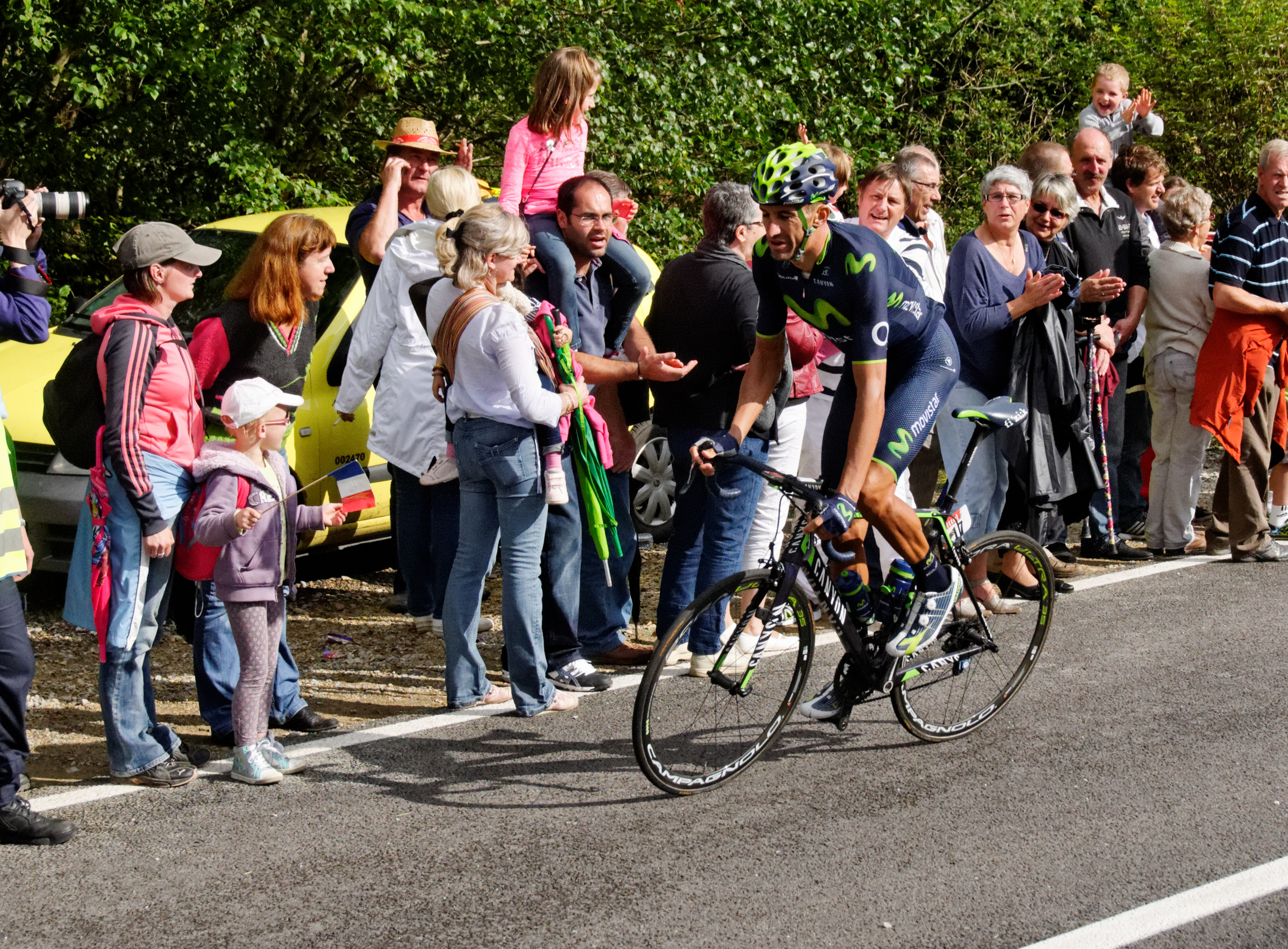 Personality rights warningAlthough this work is freely licensed or in the public domain, the person(s) shown may have rights that legally restrict certain re-uses unless those depicted consent to such uses. In these cases, a model release or other evidence of consent could protect you from infringement claims.